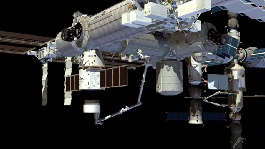 This computer rendering depicts the Canadarm2 robotic arm removing BEAM from the back of the Space X Dragon spacecraft.